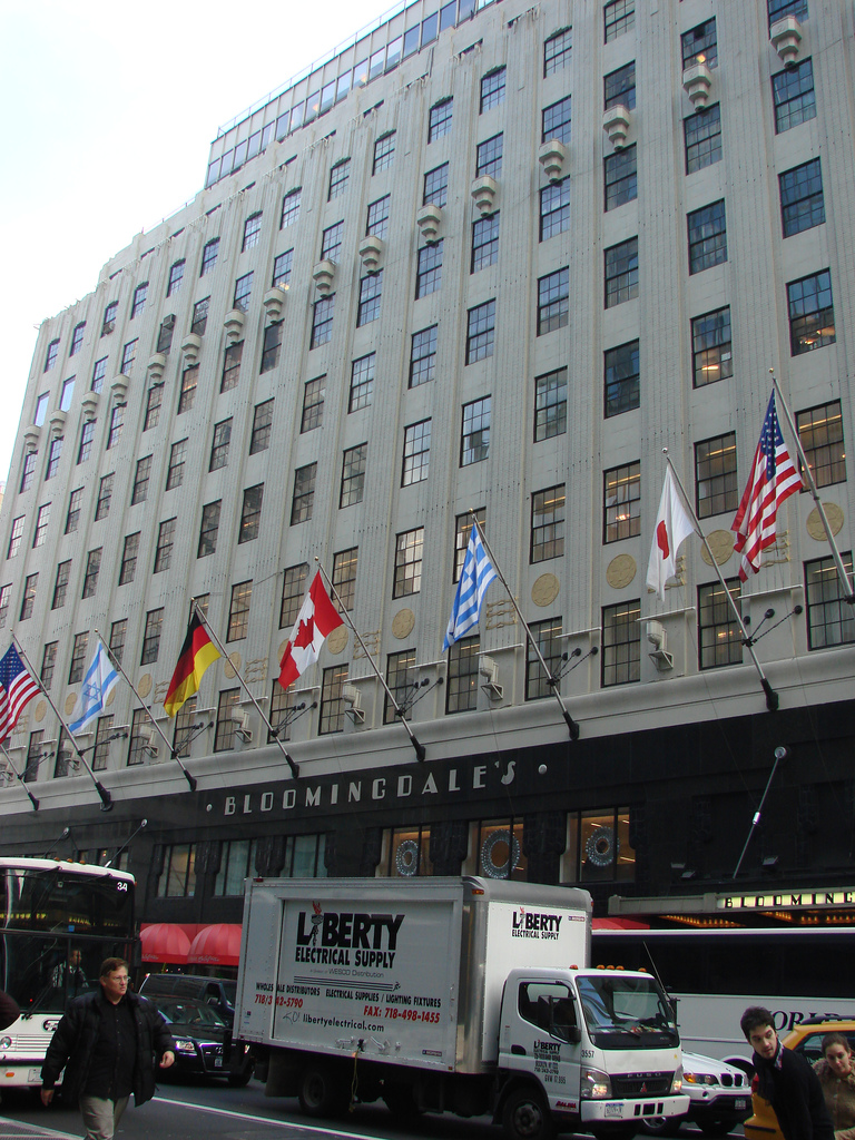 Bloomingdale's in Manhattan